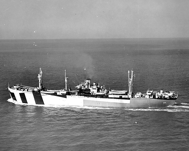 USS Burias (AG-69) underway in Mobile Bay, AL., 10 October 1944, after completing conversion for naval service. US National Archives, RG-19-LCM, photo unnumbered, US Navy Bureau of Ships photo now in the collections of the US National Archives.